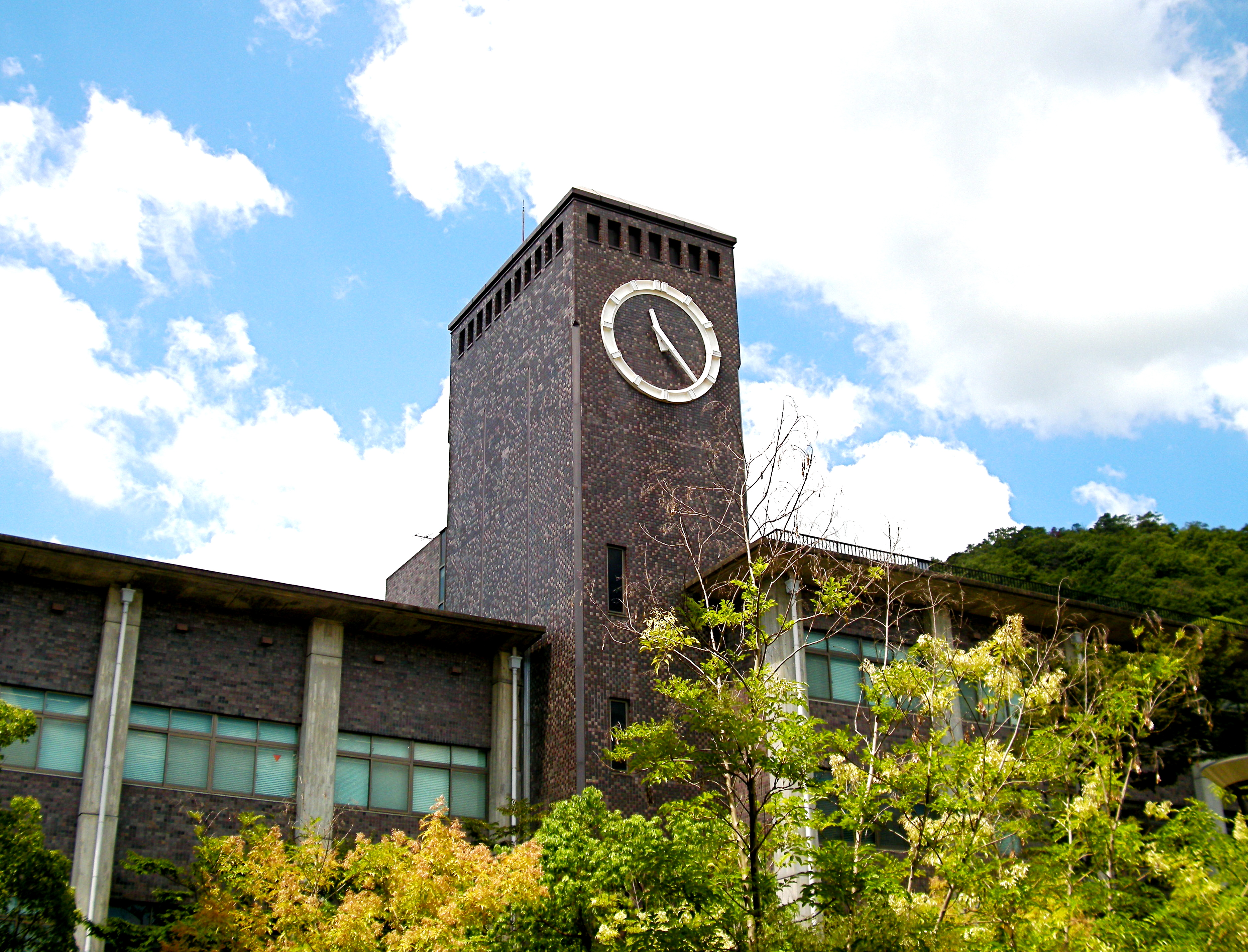 Partial three-quarter right front view of a clock tower under the sun (Ritsumeikan University, Kyoto, Japan). This building is used for College of Law. Trois quart partiel de la vue juste de devant d'une tour d'horloge sous le soleil.